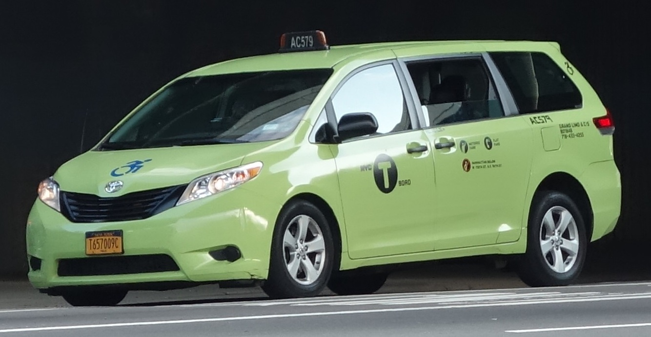 A Toyota Sienna boro cab traveling north on Woodhaven Boulevard underneath the Long Island Expressway in Elmhurst, Queens.